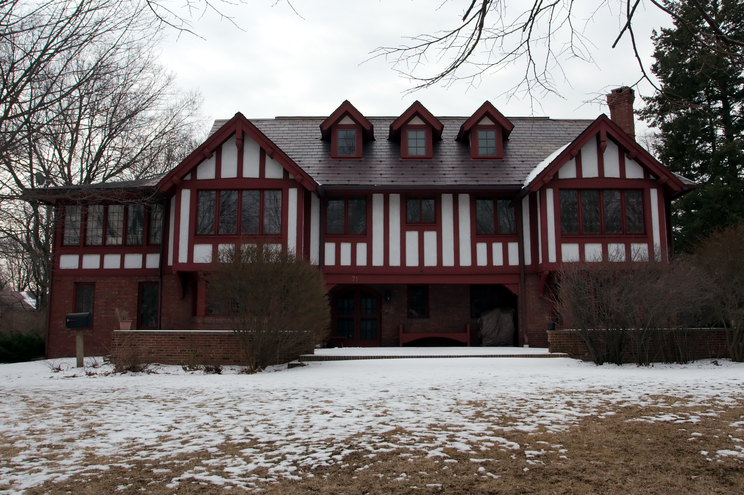 Urbana, IL Alpha Xi Delta Sorority Chapter House (added 1989 - Building - #89001110) Also known as Matthew W. Busey Mansion 715 W. Michigan Ave., Urbana Historic Significance: Event, Architecture/Engineering Architect, builder, or engineer: Royer,Joseph W. Architectural Style: Tudor Revival Area of Significance: Architecture, Education Period of Significance: 1900-1924, 1925-1949 Owner: Private Historic Function: Domestic, Education Historic Sub-function: Educational Related Housing, Single Dwelling Current Function: Education Current Sub-function: Educational Related Housing